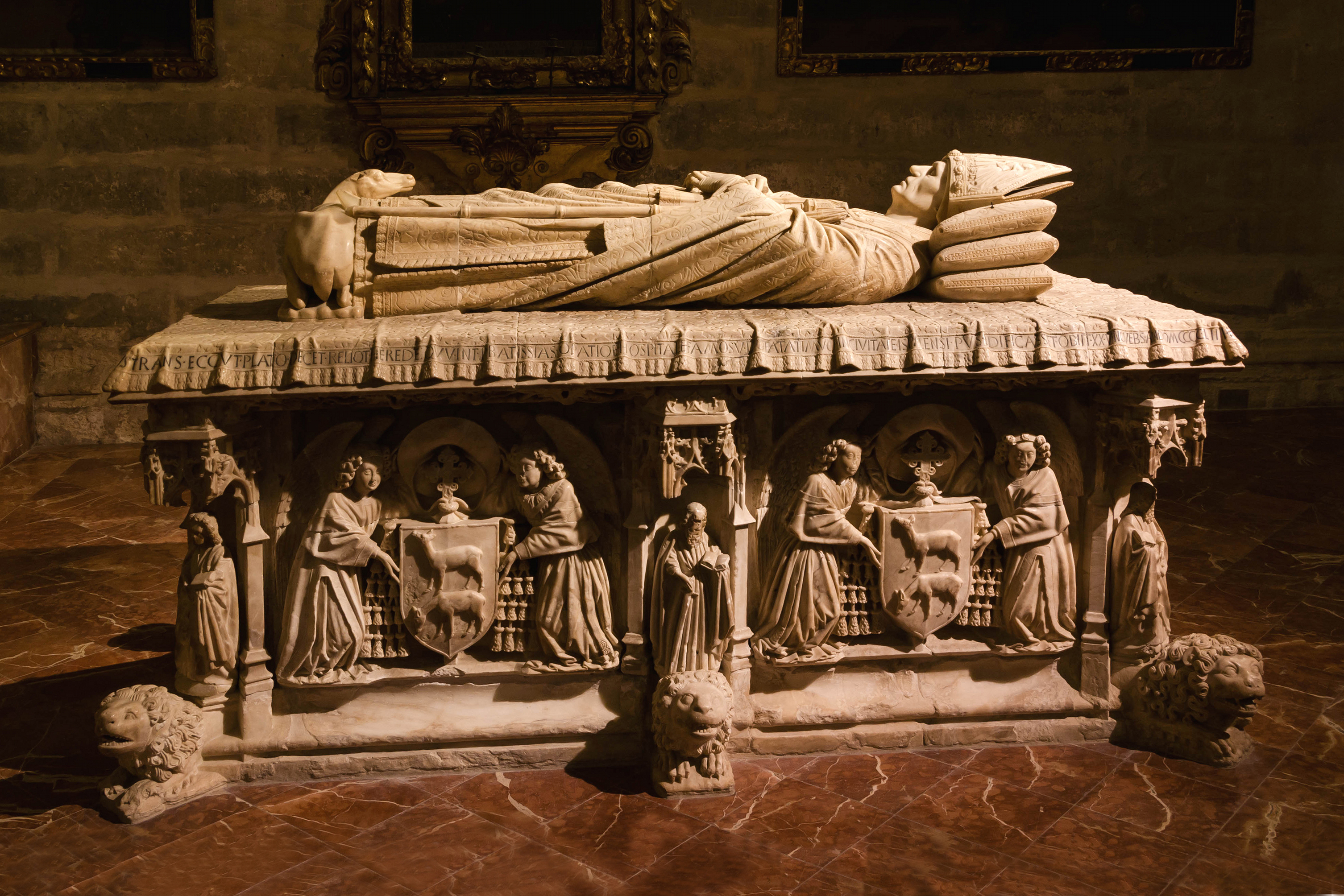 The sarcophagus of cardinal Juan de Cervantes y Bocanegra, by Lorenzo Mercadante de Bretaña (1458), alabaster, chapel of San Hermenegildo, cathedral of Seville, Spain.